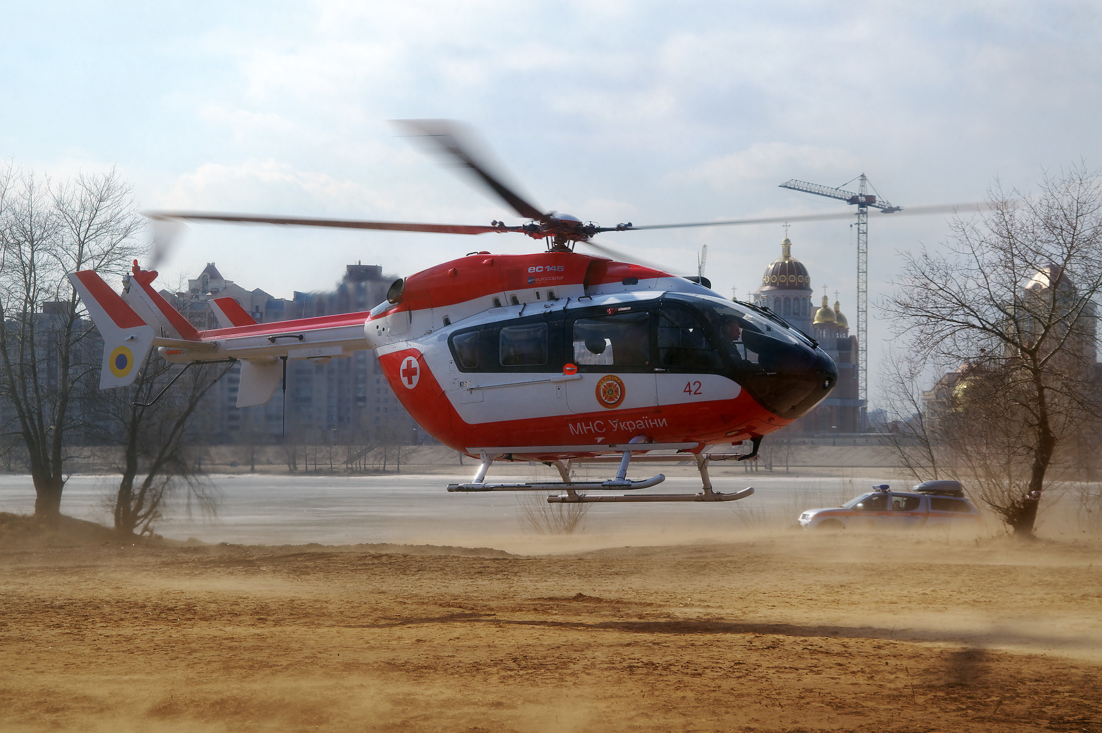 An MNS Eurocopter EC145 helicopter in Kiev